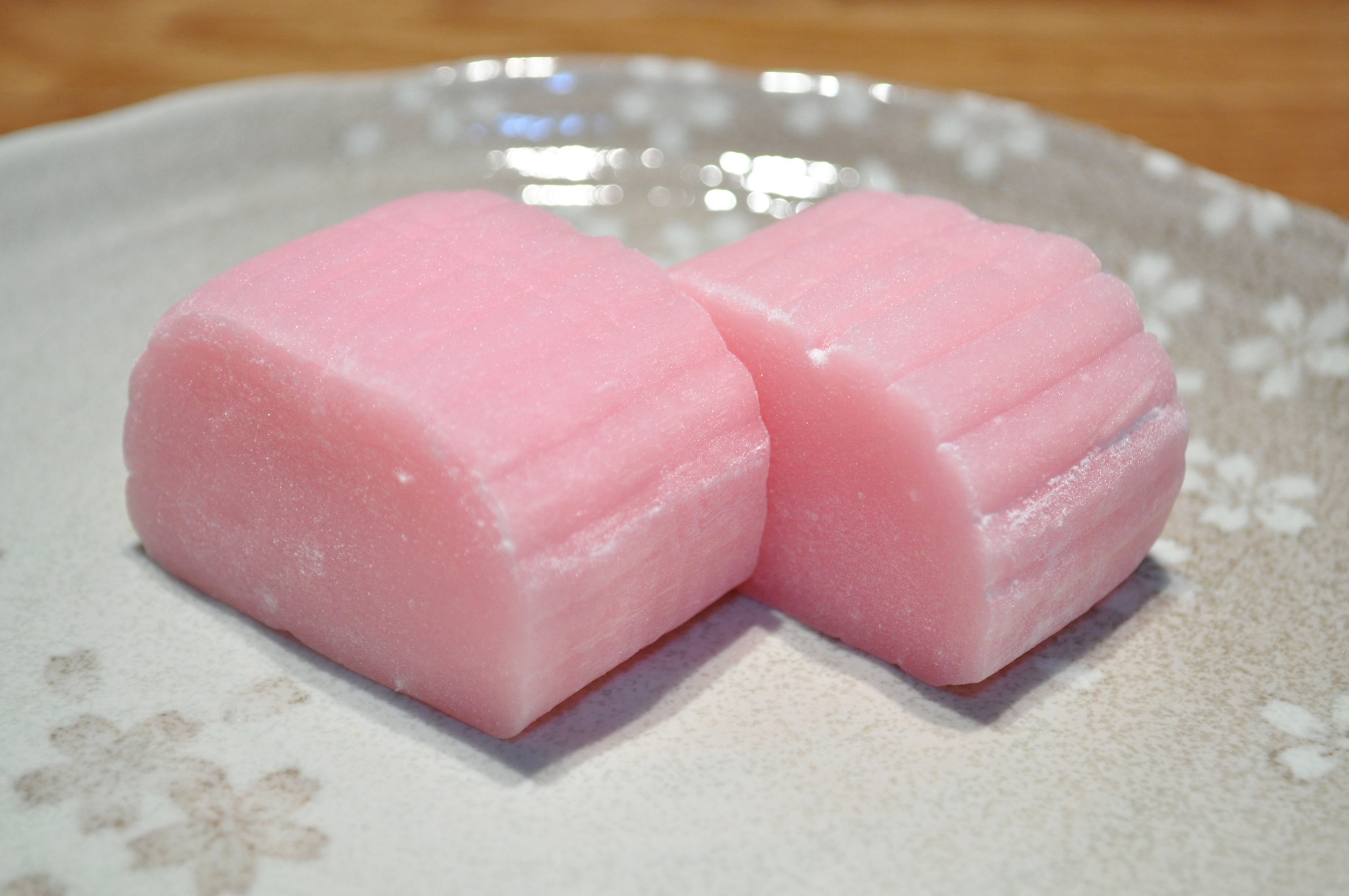 Sweet rice cake, Suama.